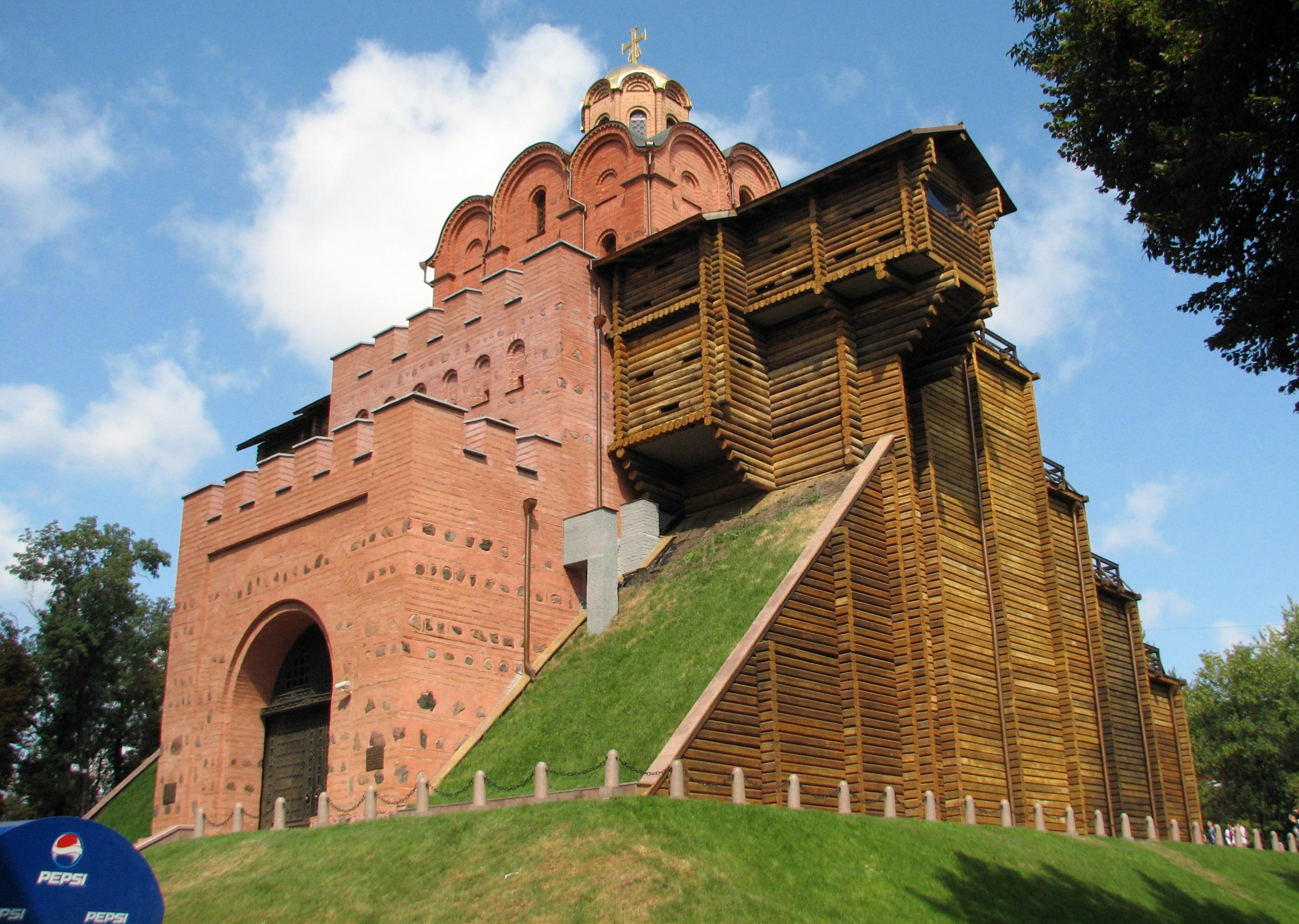 The Golden Gate in Kyiv, Ukraine.